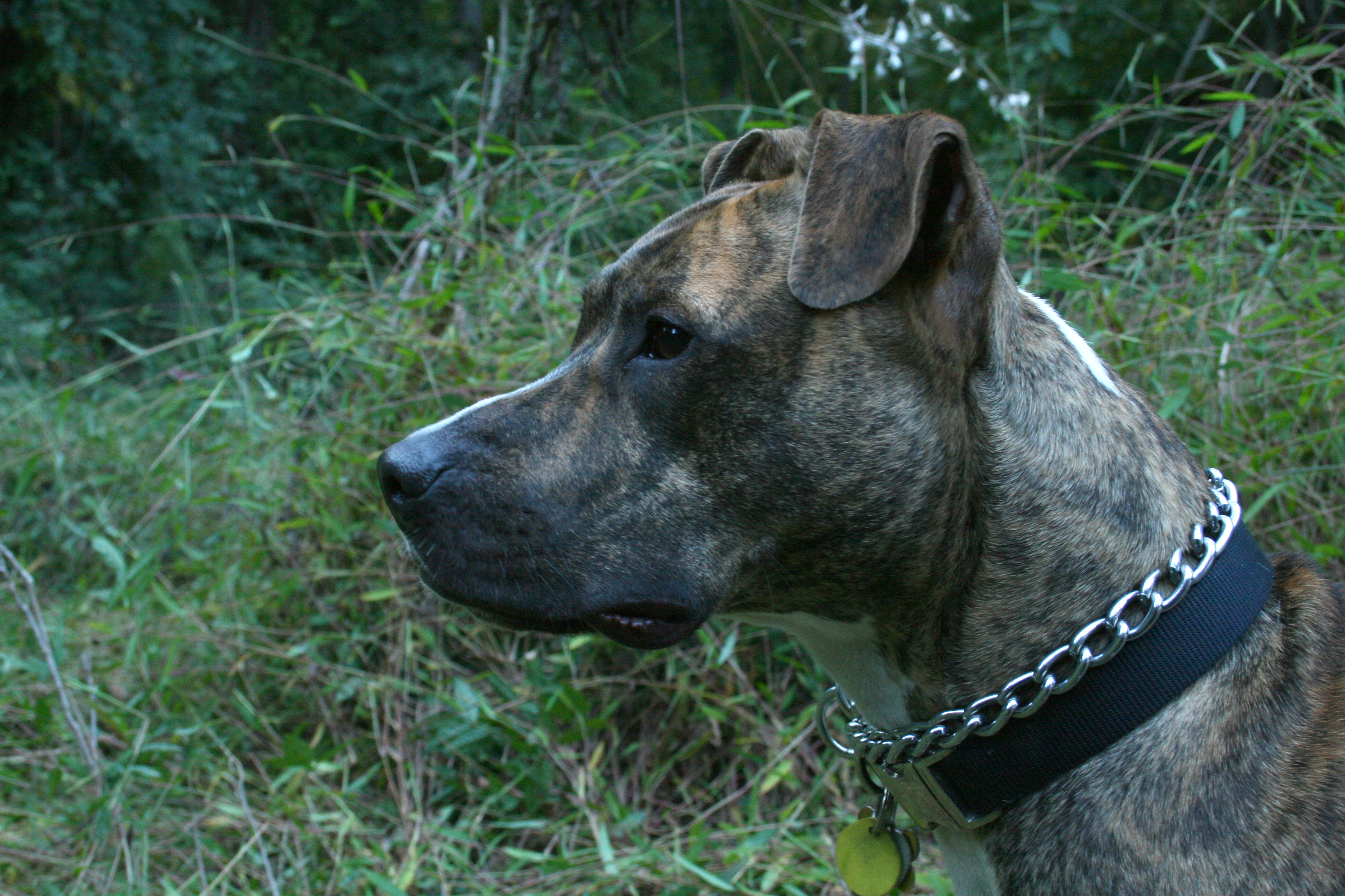 A female brindle American Pit Bull Terrier at Carolina North Forest in Chapel Hill, North Carolina.